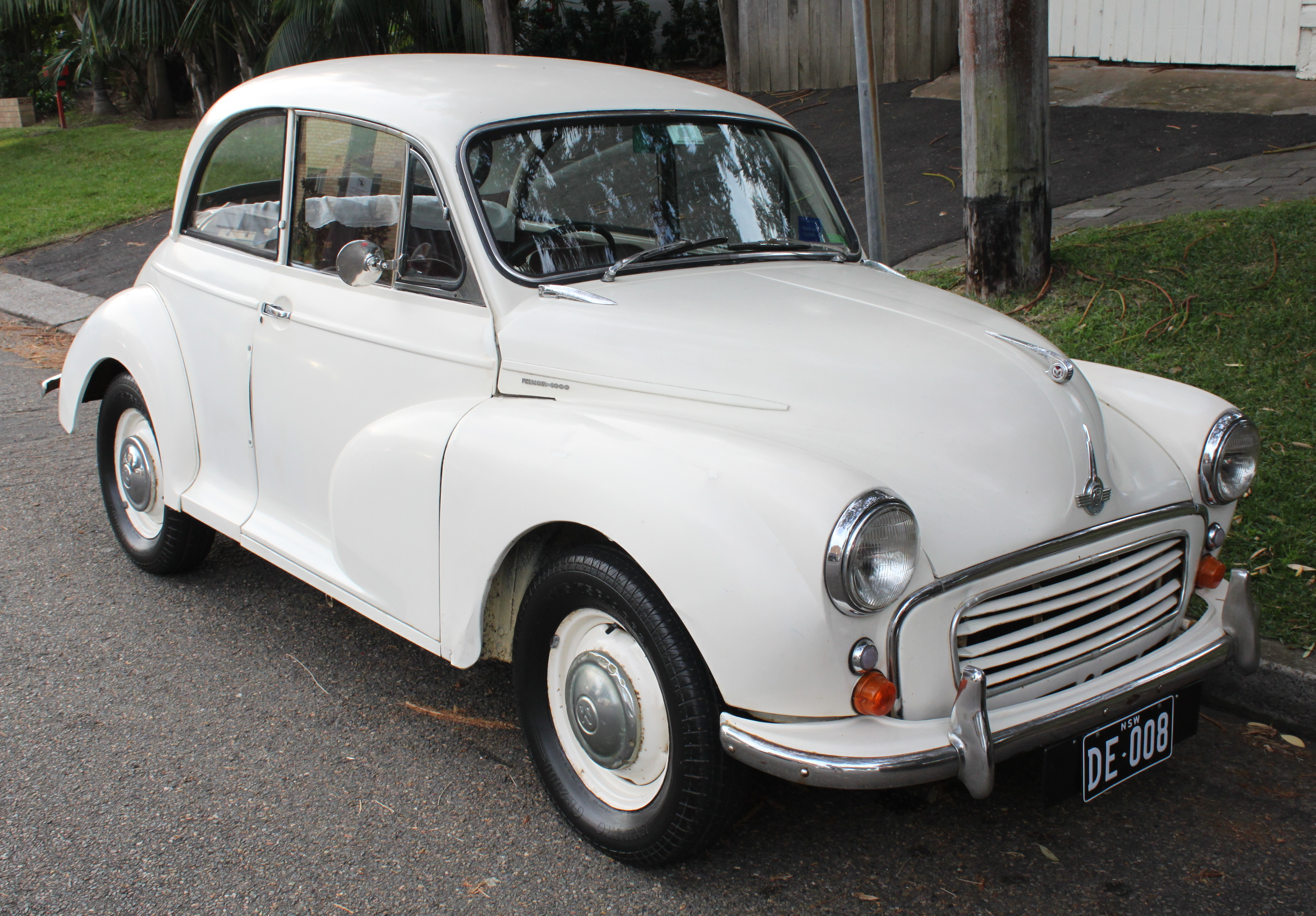 Morris Minor 1000